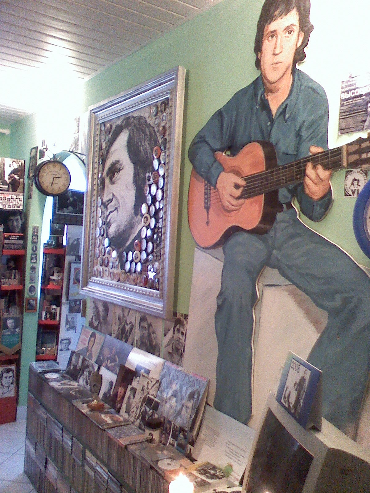 Museum of Vladimir Vysotsky in Koszalin